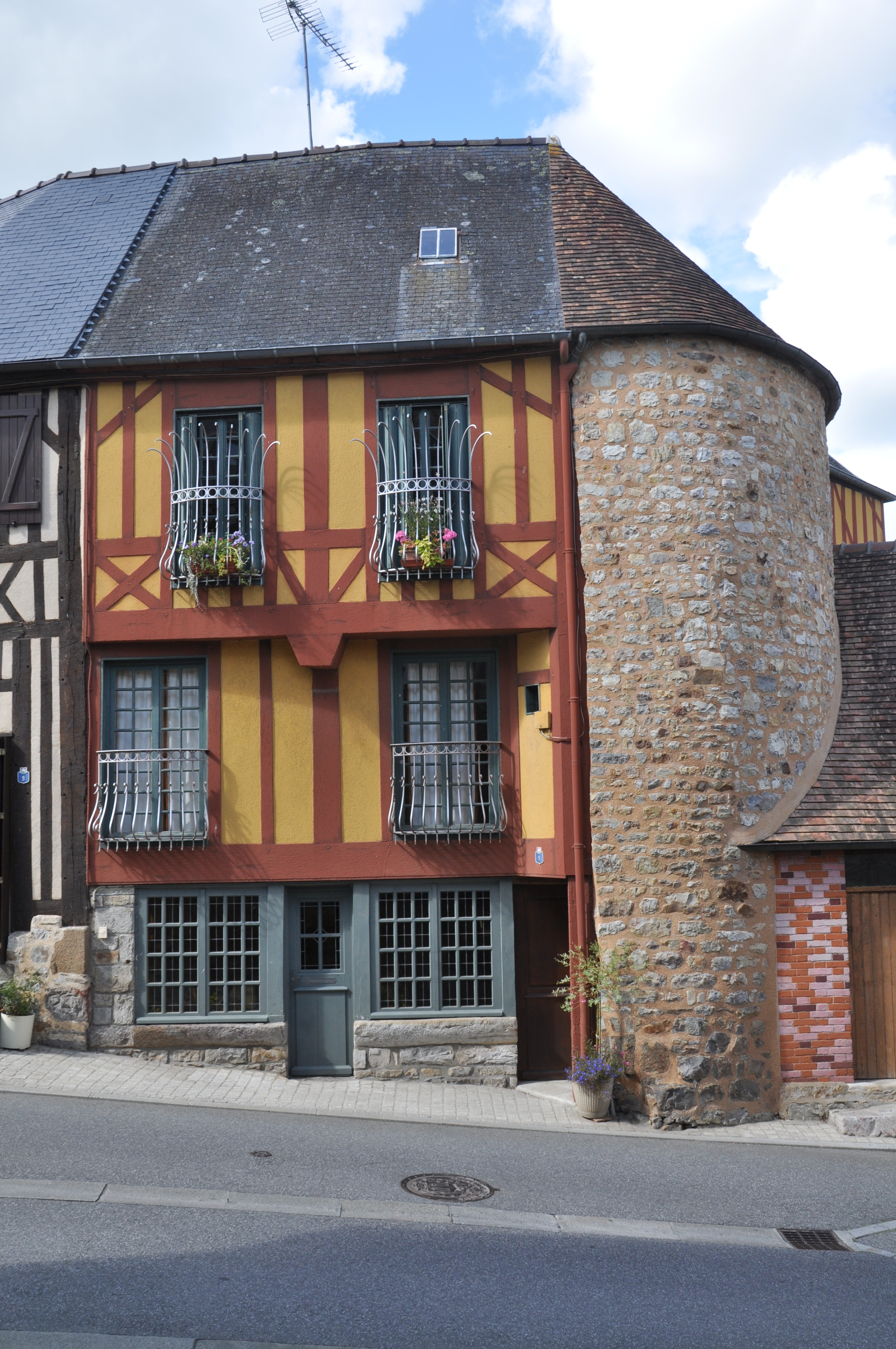 Domfront (France, Normandy) : house and haolf of a dunjeon.